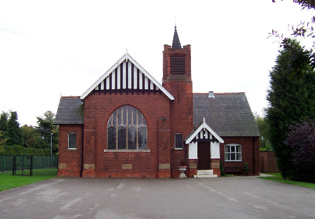 Healing Methodist Church. Healing Methodist Church, Healing, North East Lincolnshire.